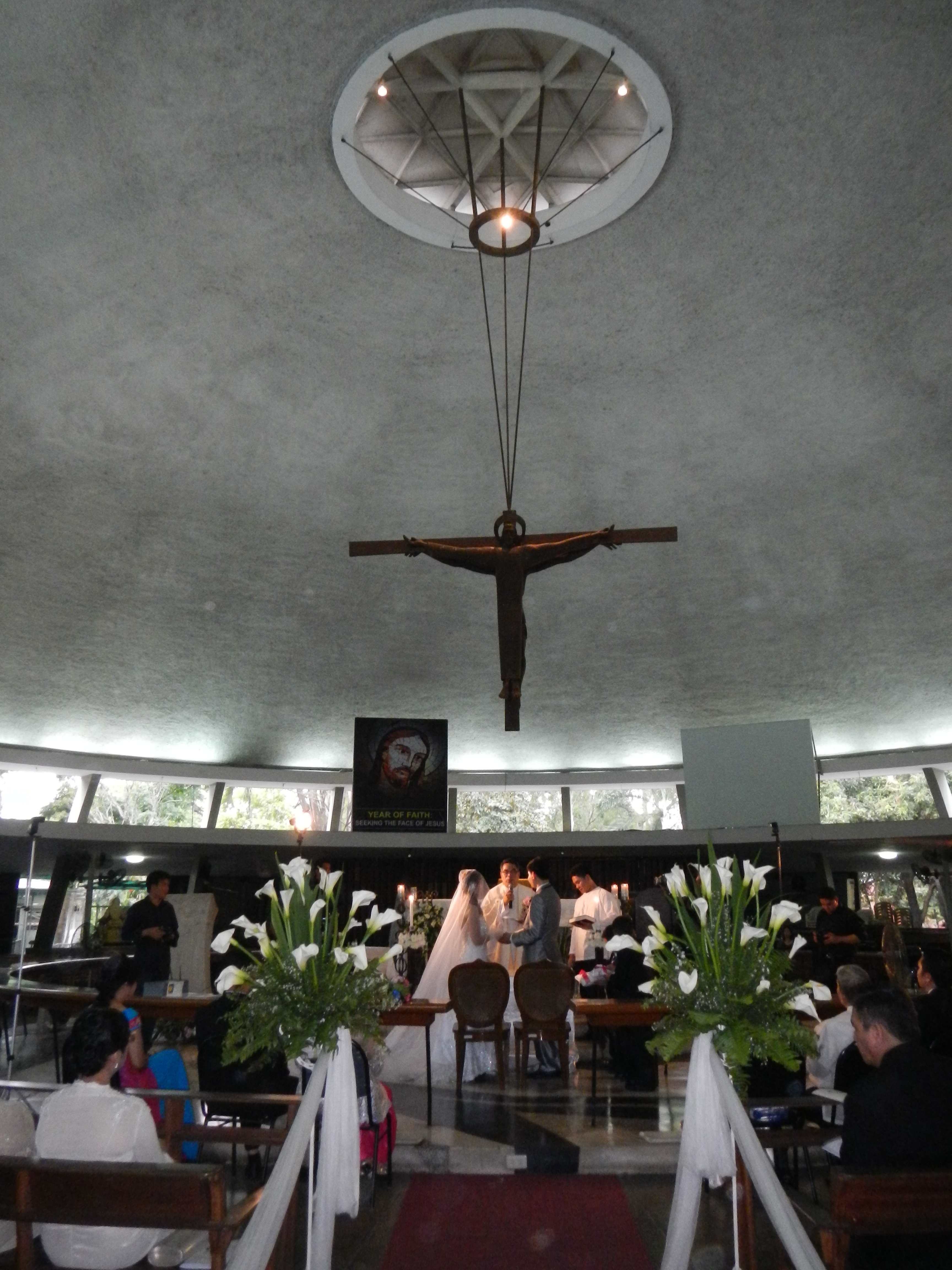 Parish of the Holy Sacrifice[1]The Parish of the Holy Sacrifice, also the Church of the Holy Sacrifice, is a landmark Catholic chapel in the University of the Philippines Diliman. It belongs to the Roman Catholic Diocese of Cubao[2] and its present parish priest is Rev. Fr. Henry E. Ferreras.[3]